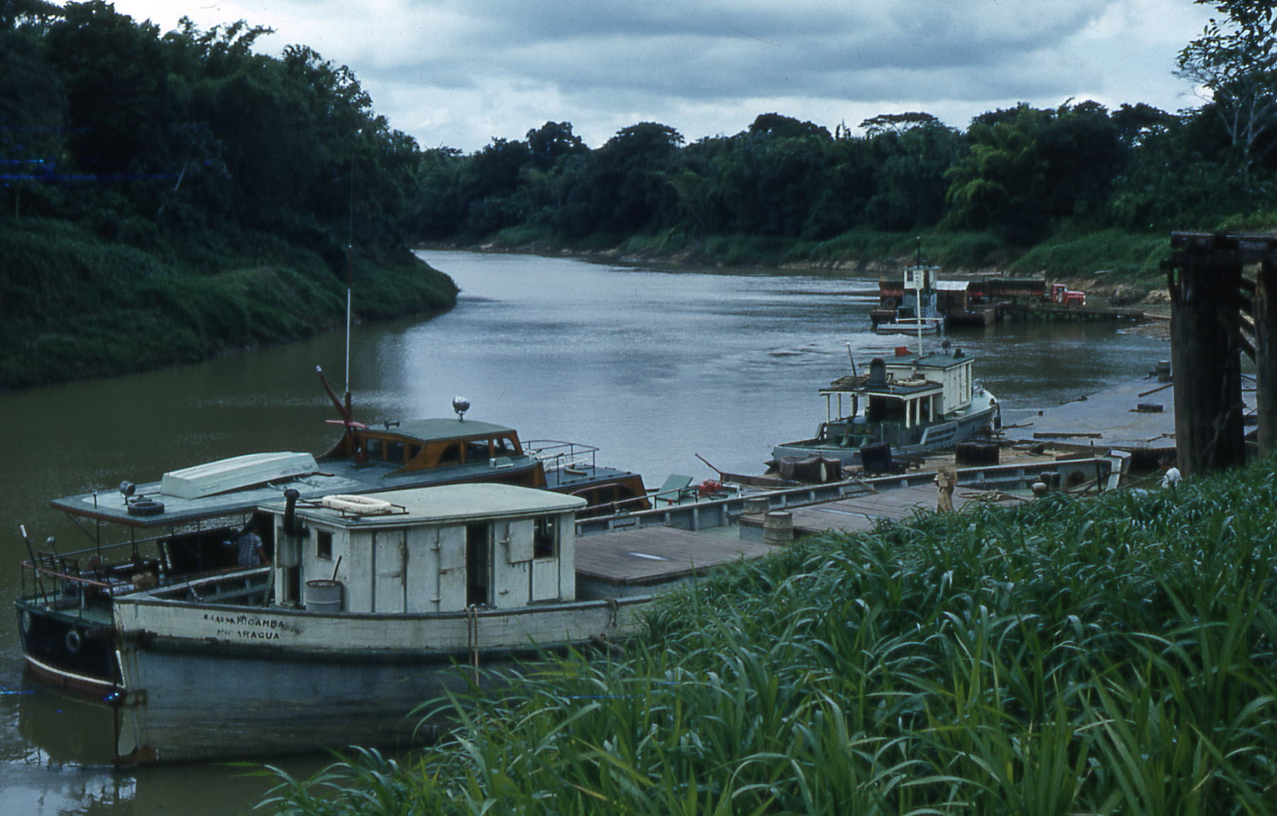 Semi-trailers loaded with sulfur for smelting being off loaded in Alamacamba on the Prinzipolka River for transporting the the mines, for the La Luz Gold Mine complex (1936-1968). The town of Siuna, Nicaragua was the site of La Luz Mining company, which was active from 1936 to 1968. There was migration from other areas of the country to work in the gold mine during these years, including people from the coast and indigenous groups. The mine was shut down in 1968 due to damage of the Ei River Hydro Electric Plant.[1]